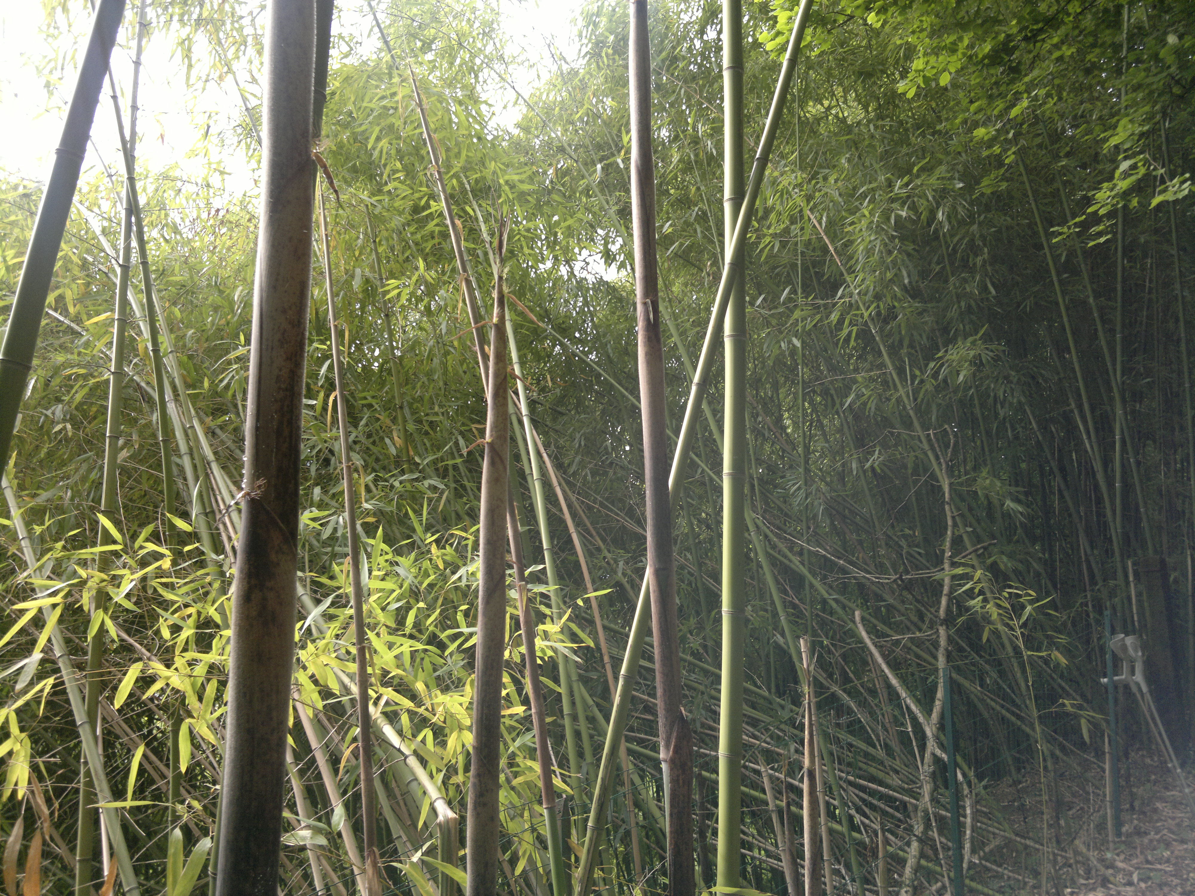 bamboo bambou bambuseae phyllostachys viridiglaucescens VAN_DEN_HENDE_ALAIN CC-BY-SA-4-0 _210520142035